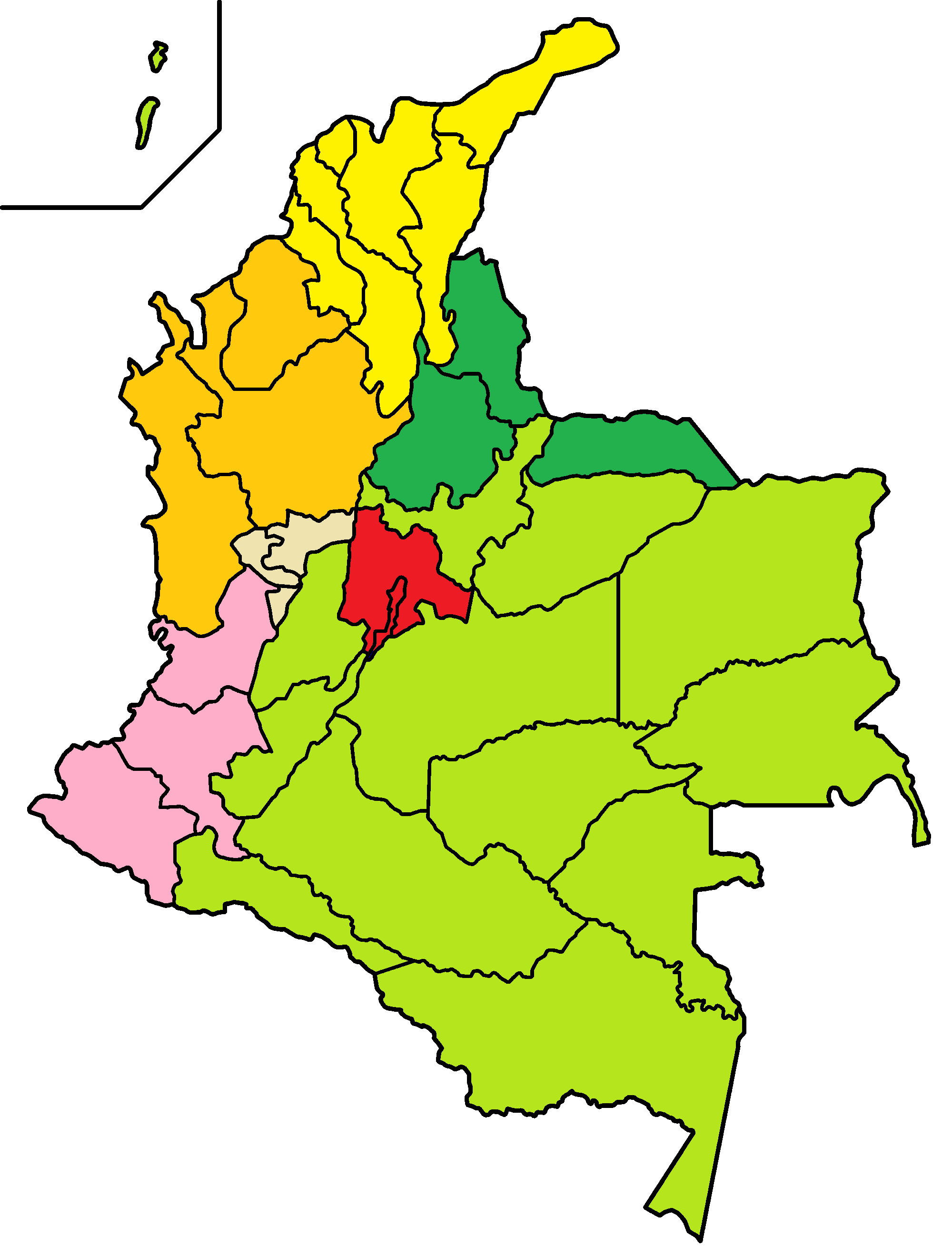 Dialing zones map in Colombia. 1 2 4 5 6 7 8